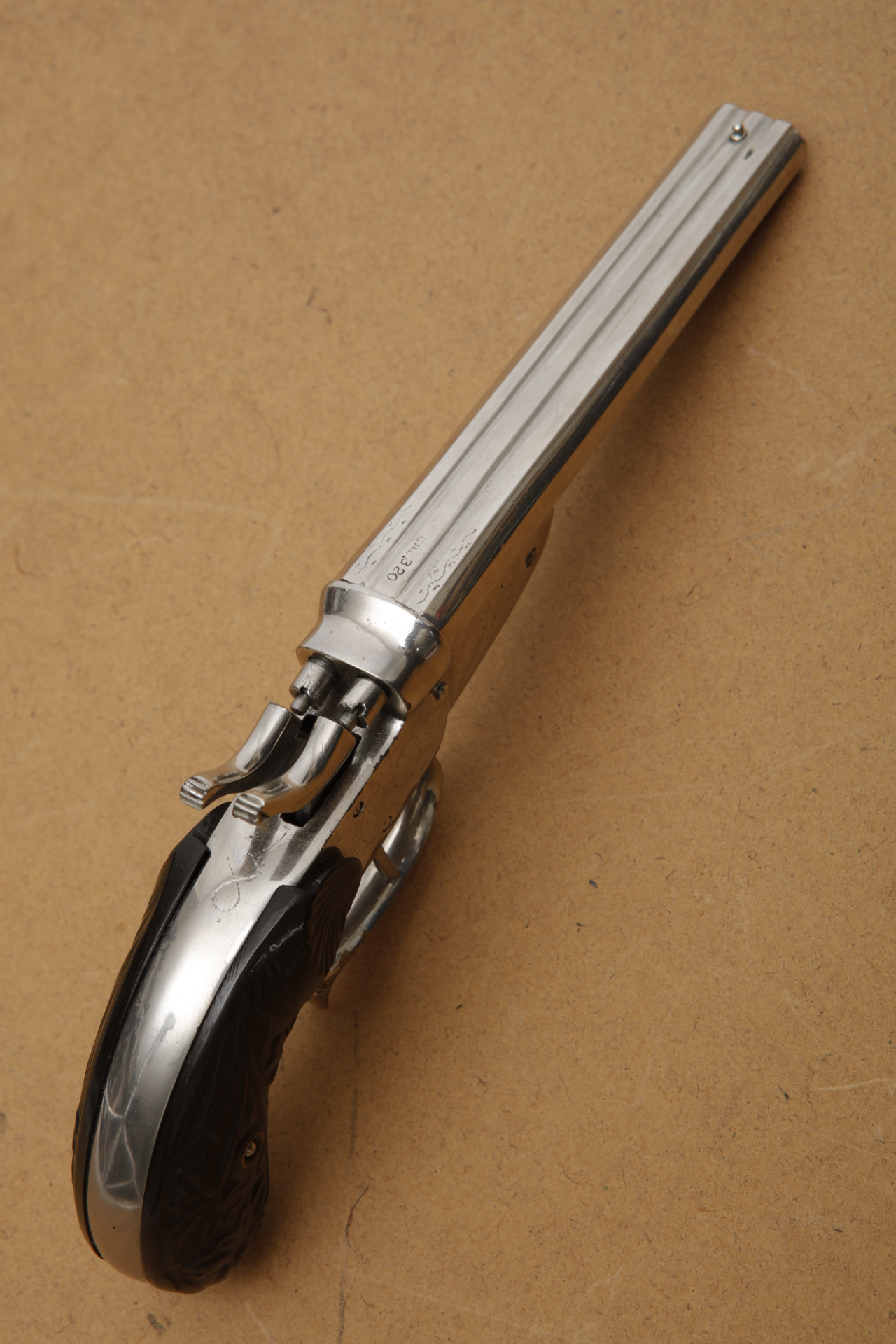 A .320 caliber Garrucha from the 1960s.